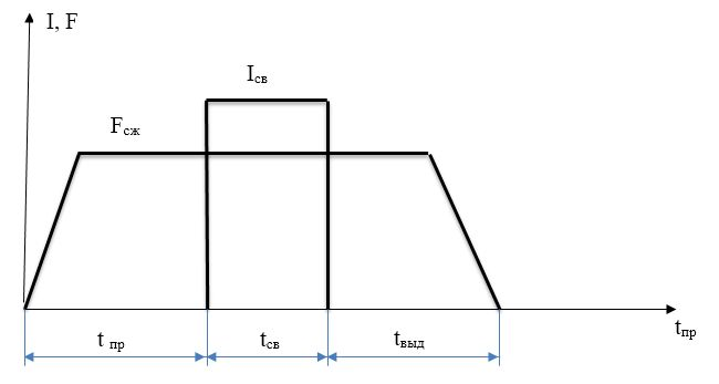 Циклограмма при сварке мартенситно-бейнитных сталей, мягкий режим